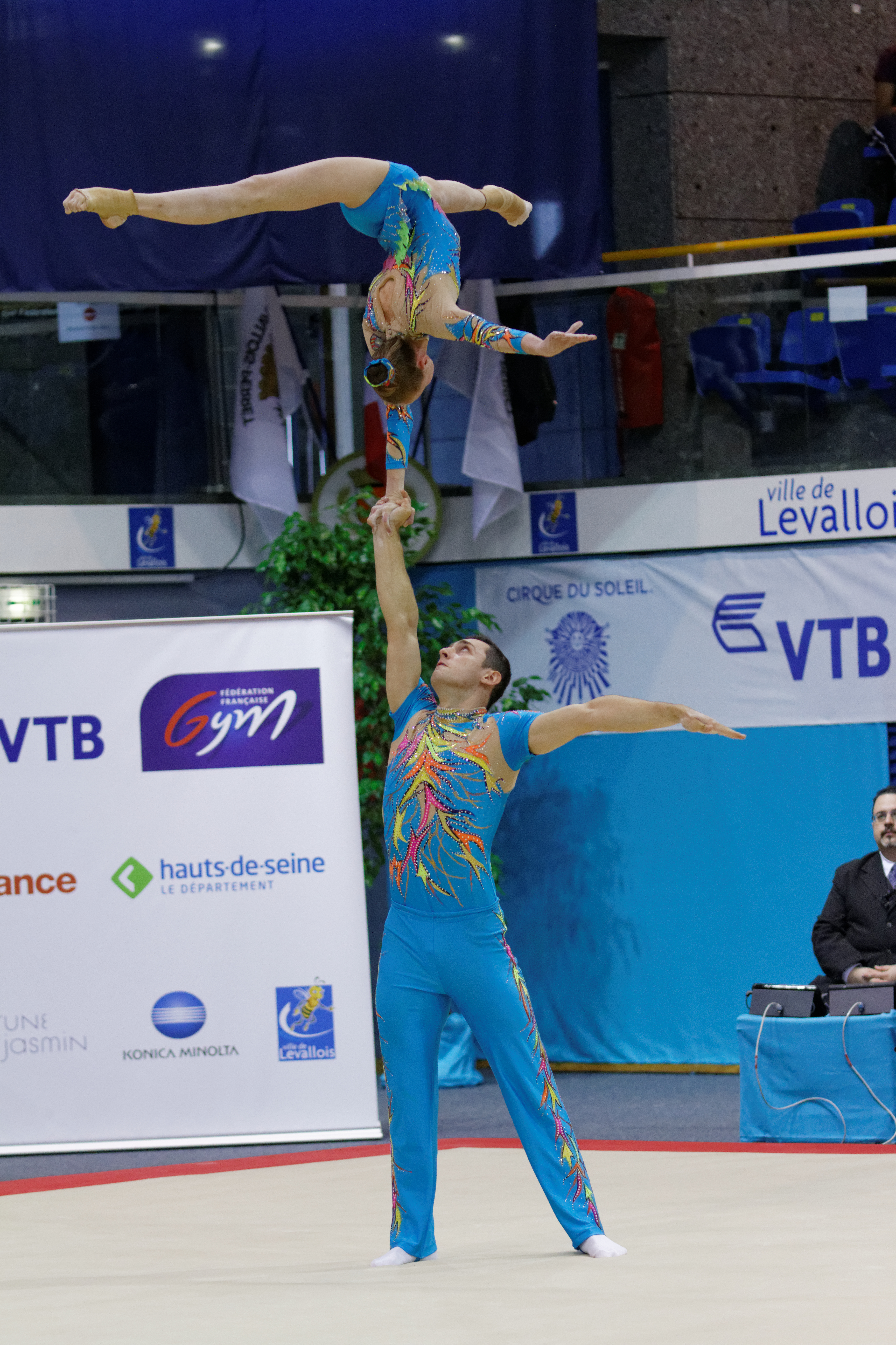 2014 Acrobatic Gymnastics World Championships, 10th-12 July, Levallois-Perret, France. Qualifications: mixed pair. Belarus 2.